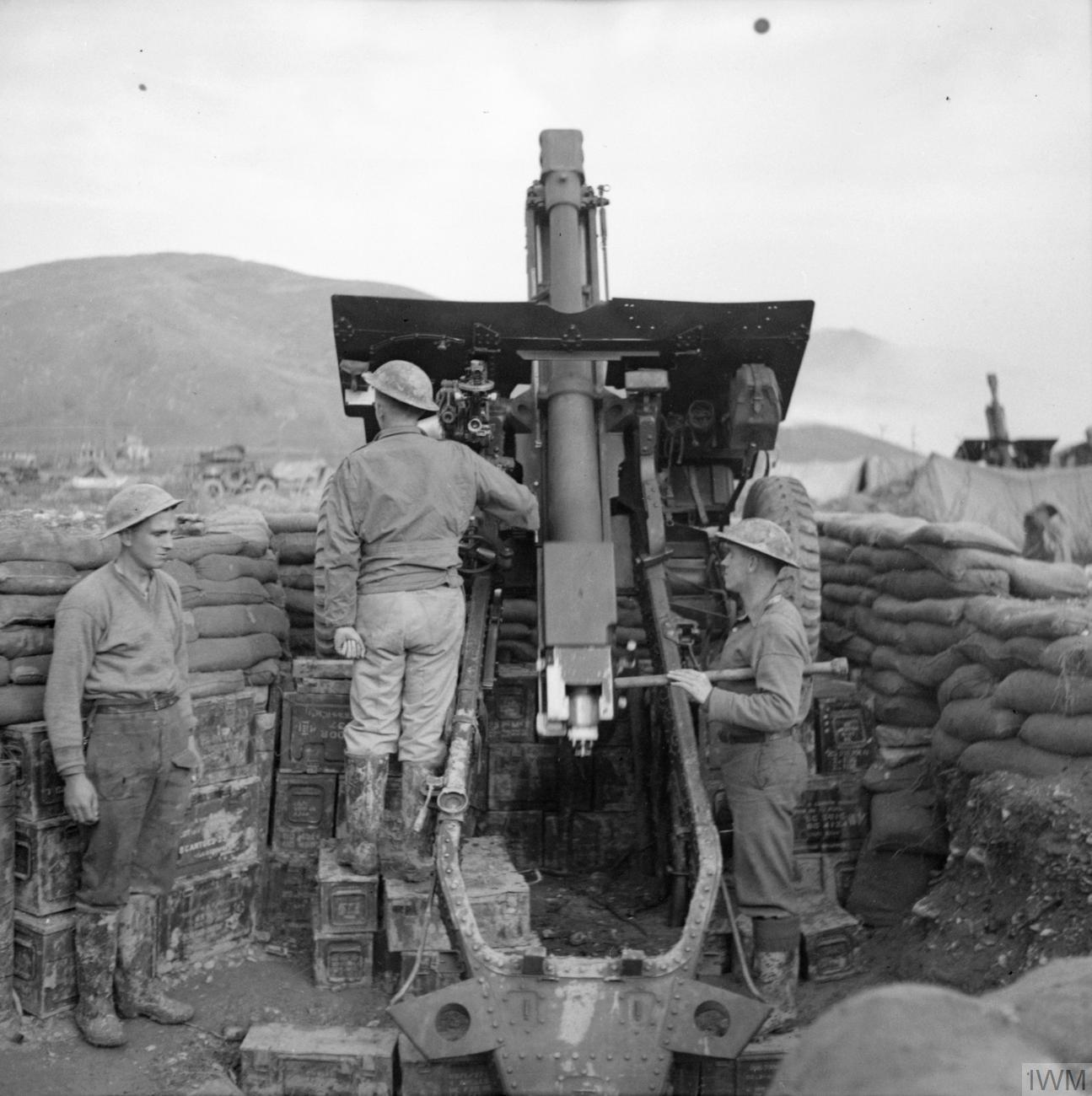 The British Army in Italy 1944 A 25pdr of 266 Battery, 67th Field Regiment in use as a mortar near San Clemente, 2 December 1944.